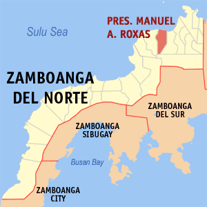 Map of the Zamboanga del Norte showing the location of President Manuel A. Roxas